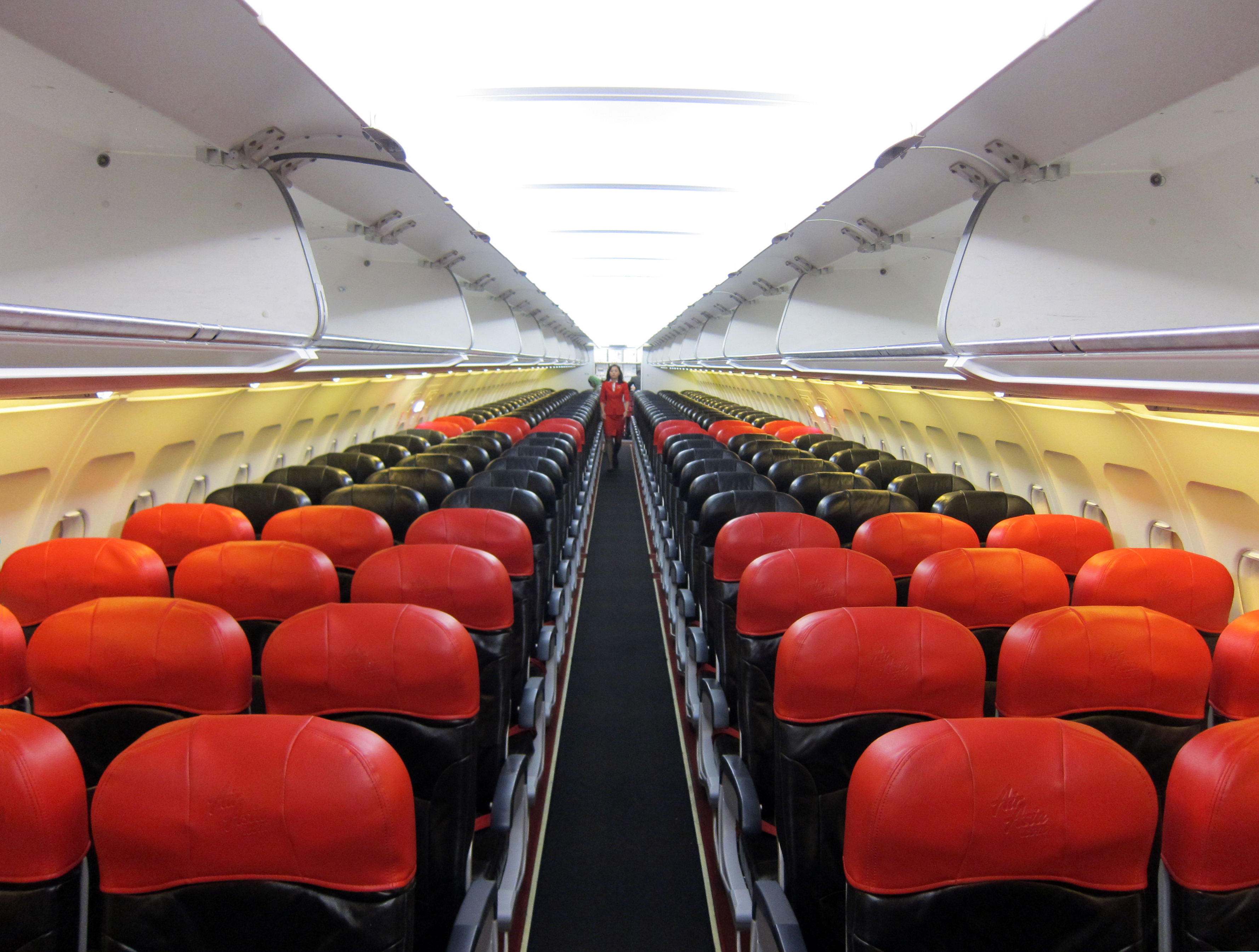 Interior of AirAsia airplane